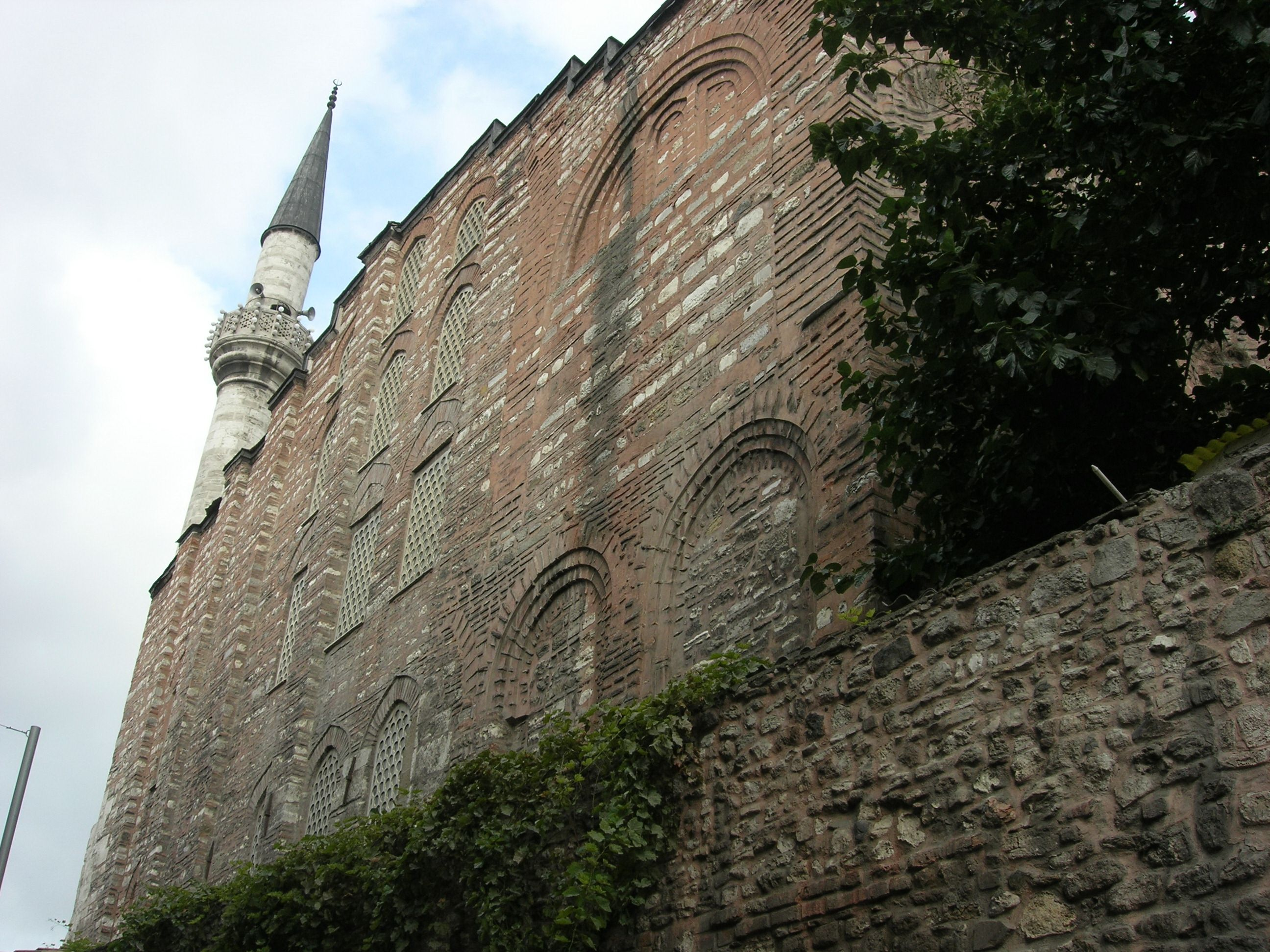 The southwest side of the Gül Mosque in Istanbul viewed from south